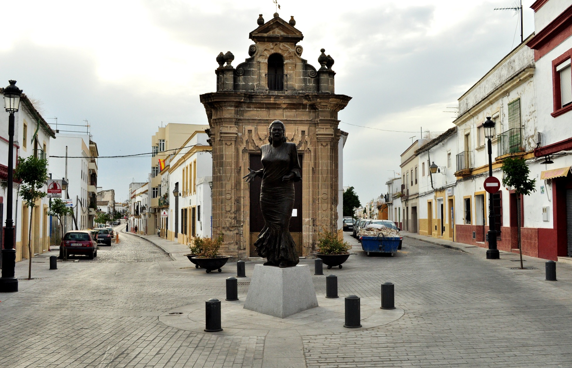 Chapel of Yedra, statue to La Paquera, Jerez